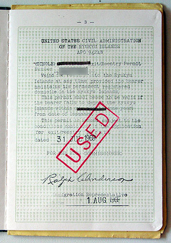 USCAR Visa(Permission for Entry into the Ryukyu Islands)